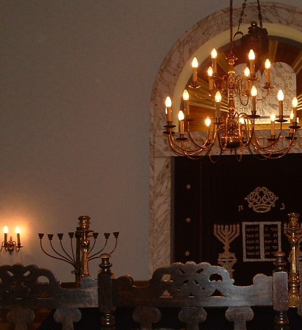 Salzburg Synagogue, interior reconstructed Photograph by Gakuro 2005